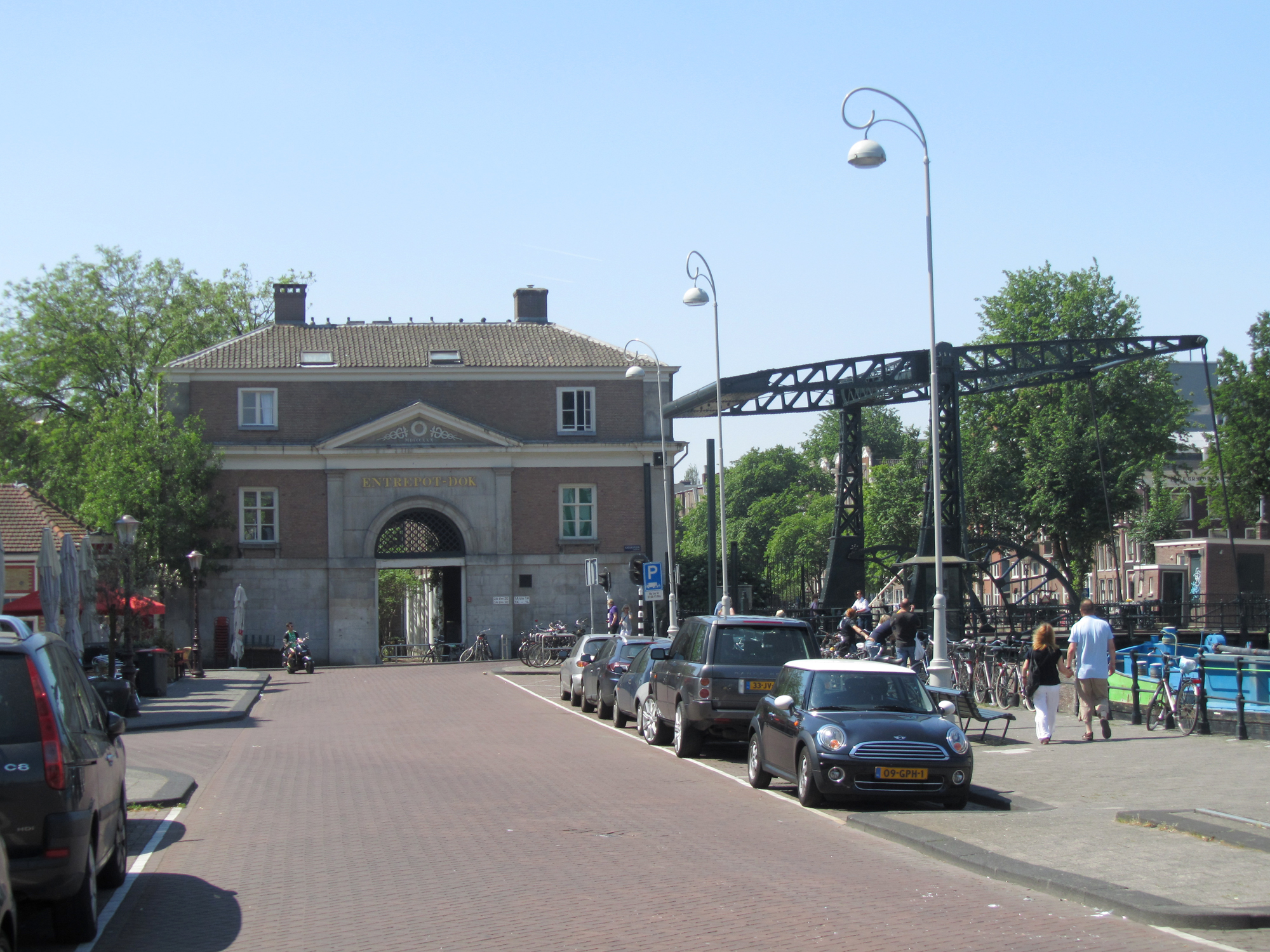 Kadijksplein square in Amsterdam with the gate building of the Entrepotdok and the cast-iron bridge (bridge number 80) across Nieuwe Herengracht canal